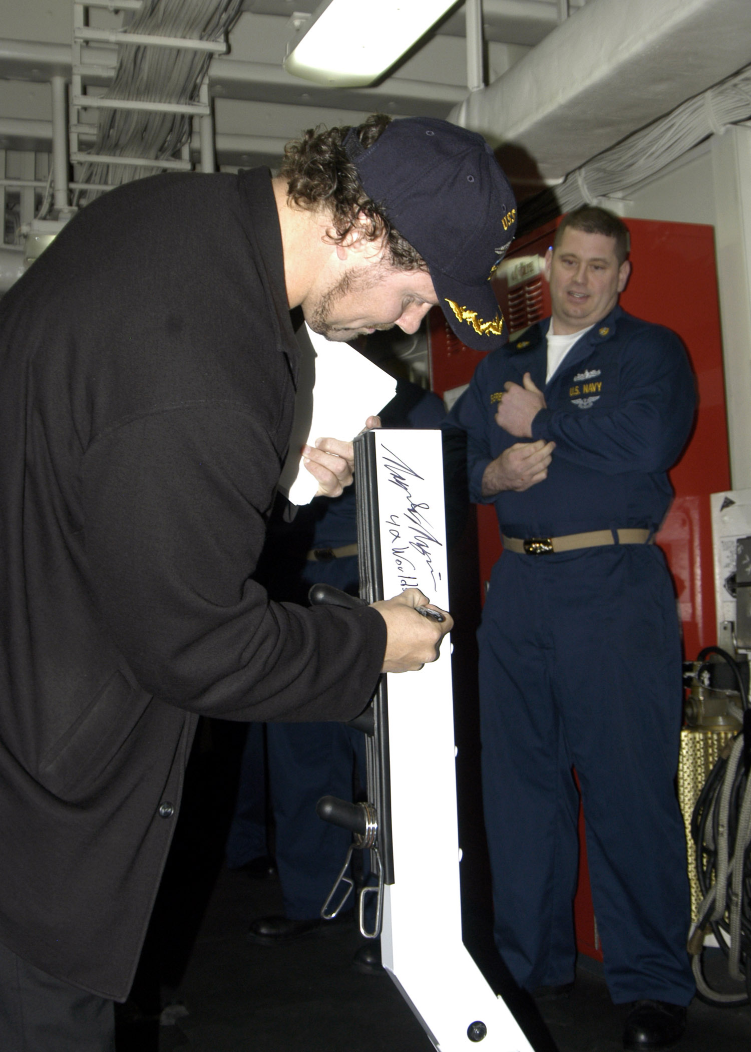 Reykjavik, Iceland (Oct. 14, 2006) - Magnus ver Magnusson, Four Time World's Strongest Man, autographs a workout bench in the gym aboard the multipurpose amphibious assault ship USS Wasp (LHD 1). Wasp is the first U.S. Navy ship to visit Iceland after the closing of the Naval Air Station in Keflavik. U.S. Navy photo by Mass Communication Specialist 3rd Class Sarah West (RELEASED)